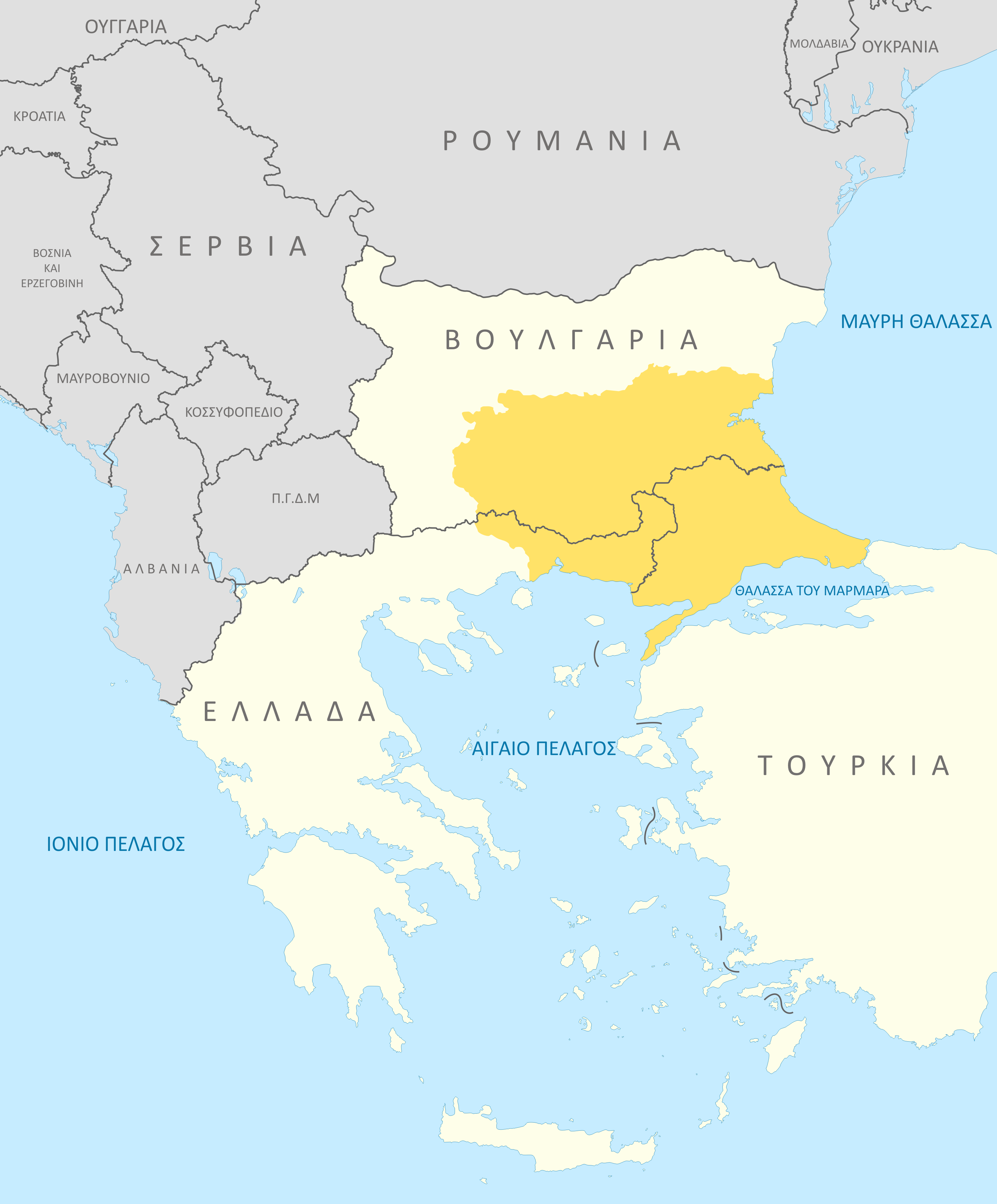 Thrace and present-day state borderlines